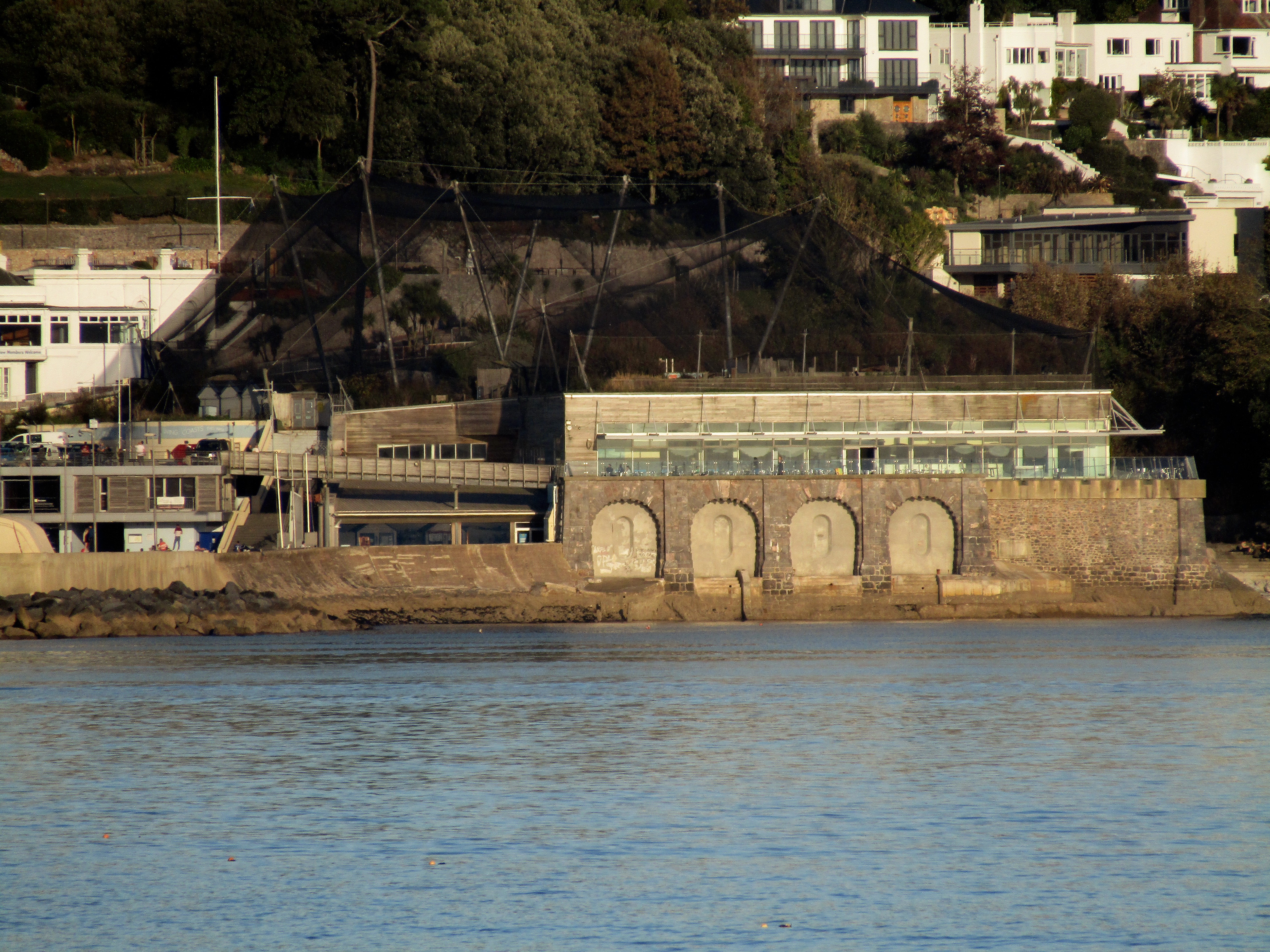 A view of Living Coasts, also showing the now demolished Marine Spa foundations beneath the net and cafe.